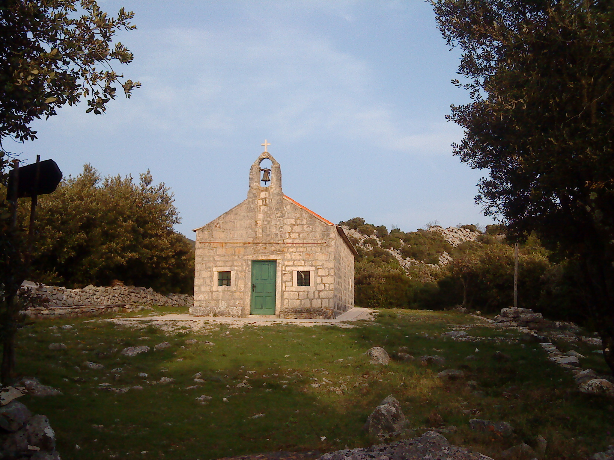 Our Little Lady church in Nakovana